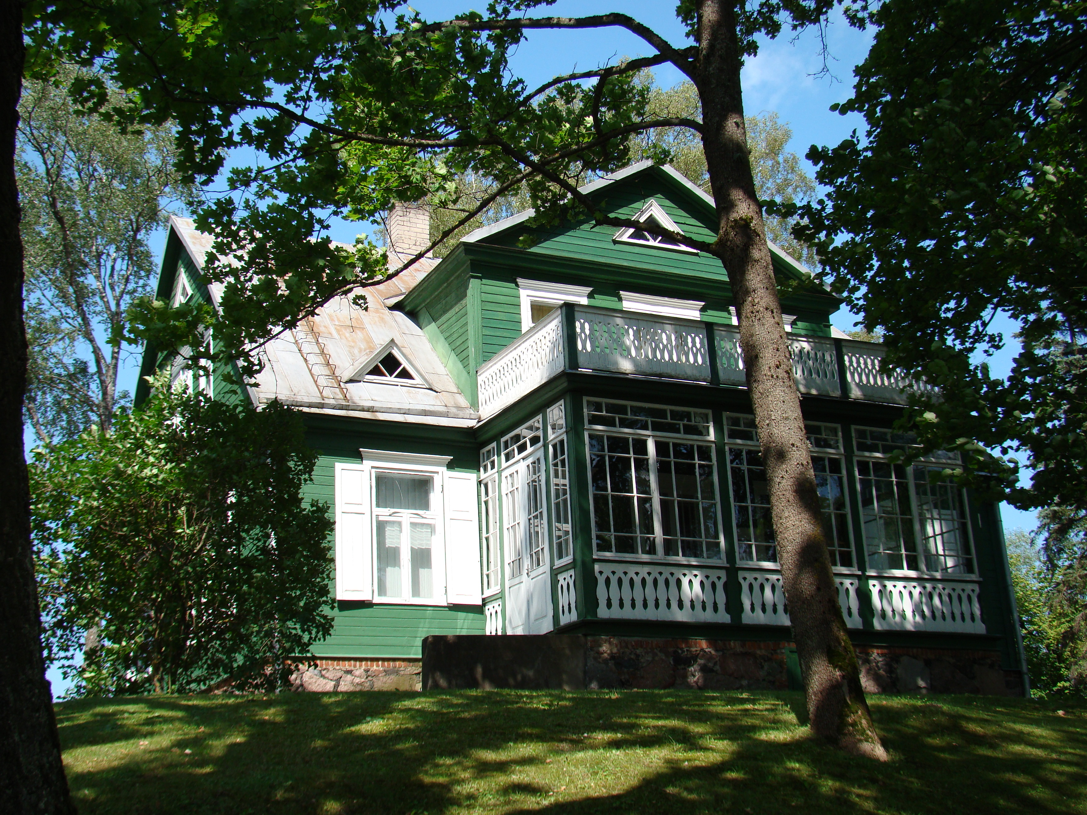 Memorial Museum A.Baranauskas end A.Vienuolis-Žukauskas, Anykščiai, Lithuania